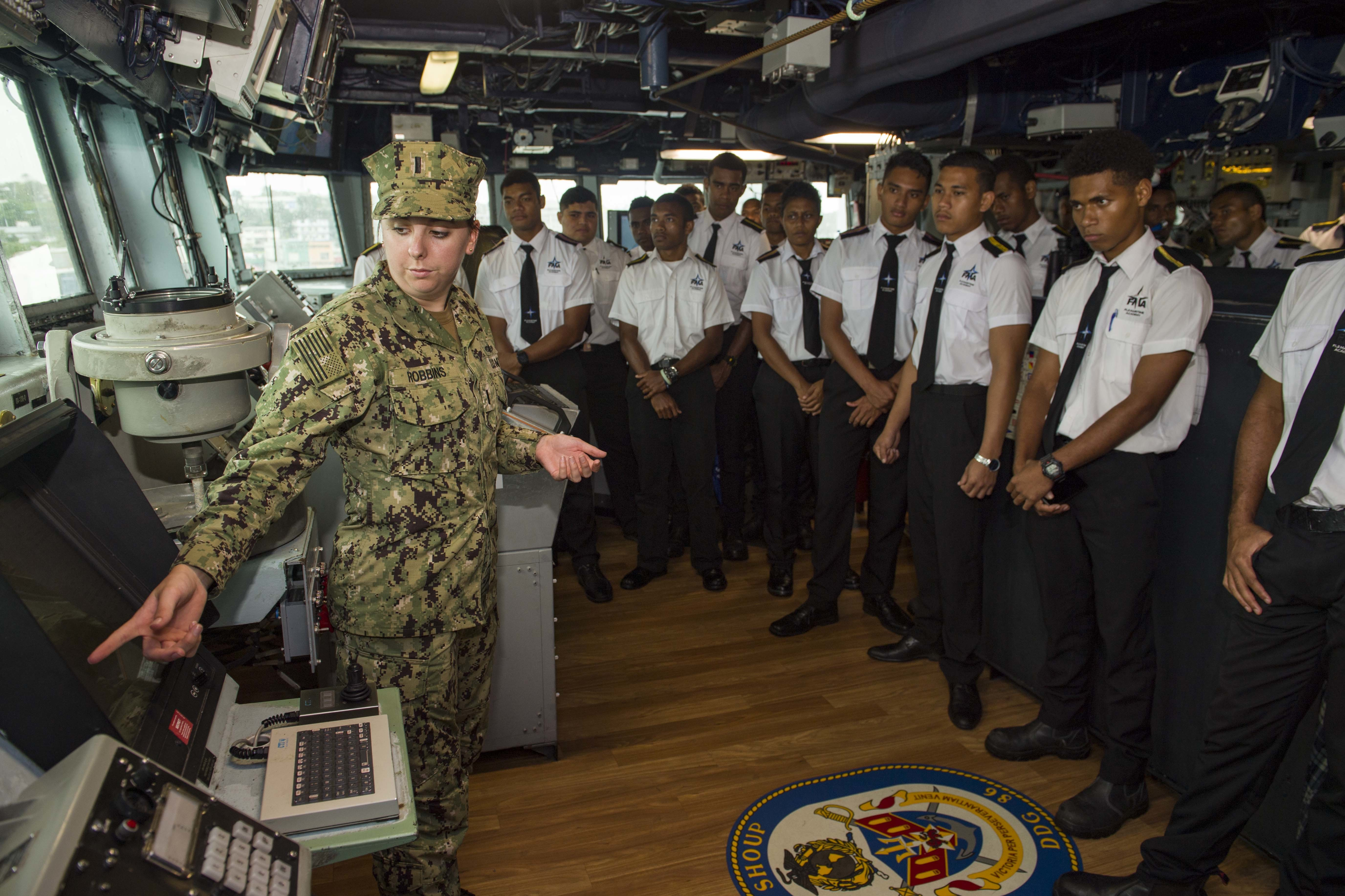 PORT OF SUVA, Fiji (Oct. 16, 2018) Lt. j.g. Mikaela Robbins, Damage Control Assistant of the Arleigh Burke-class guided-missile destroyer USS Shoup (DDG 86), explains the voyage management system to the students of Fiji Maritime Academy in the pilot house during a recent port visit in Suva, Fiji Oct. 16, 2018. Shoup is currently participating in the Oceania Maritime Security Initiative (OMSI) program, a Secretary of Defense program leveraging Department of Defense assets transiting the region to increase the Coast Guard’s maritime domain awareness, ultimately supporting its maritime law enforcement operations in Oceania. (U.S. Navy photo by Mass Communications Specialist 2nd Class William Collins III/Released) VIRIN = 181016-N-VG727-3076